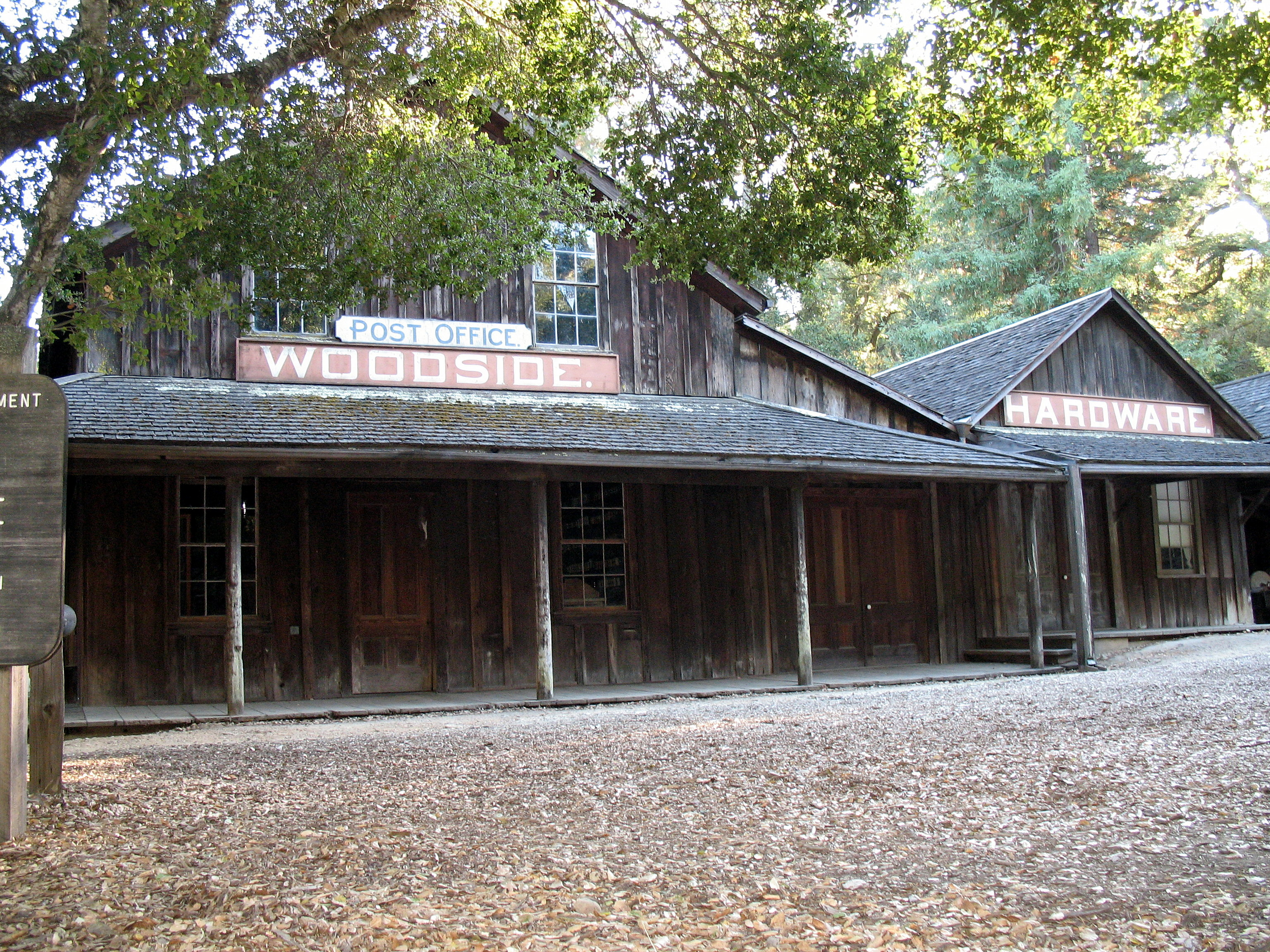 National Register of Historic Places listings in San Mateo County, California. Woodside Store, 471 Kings Mountain Rd., Woodside, California